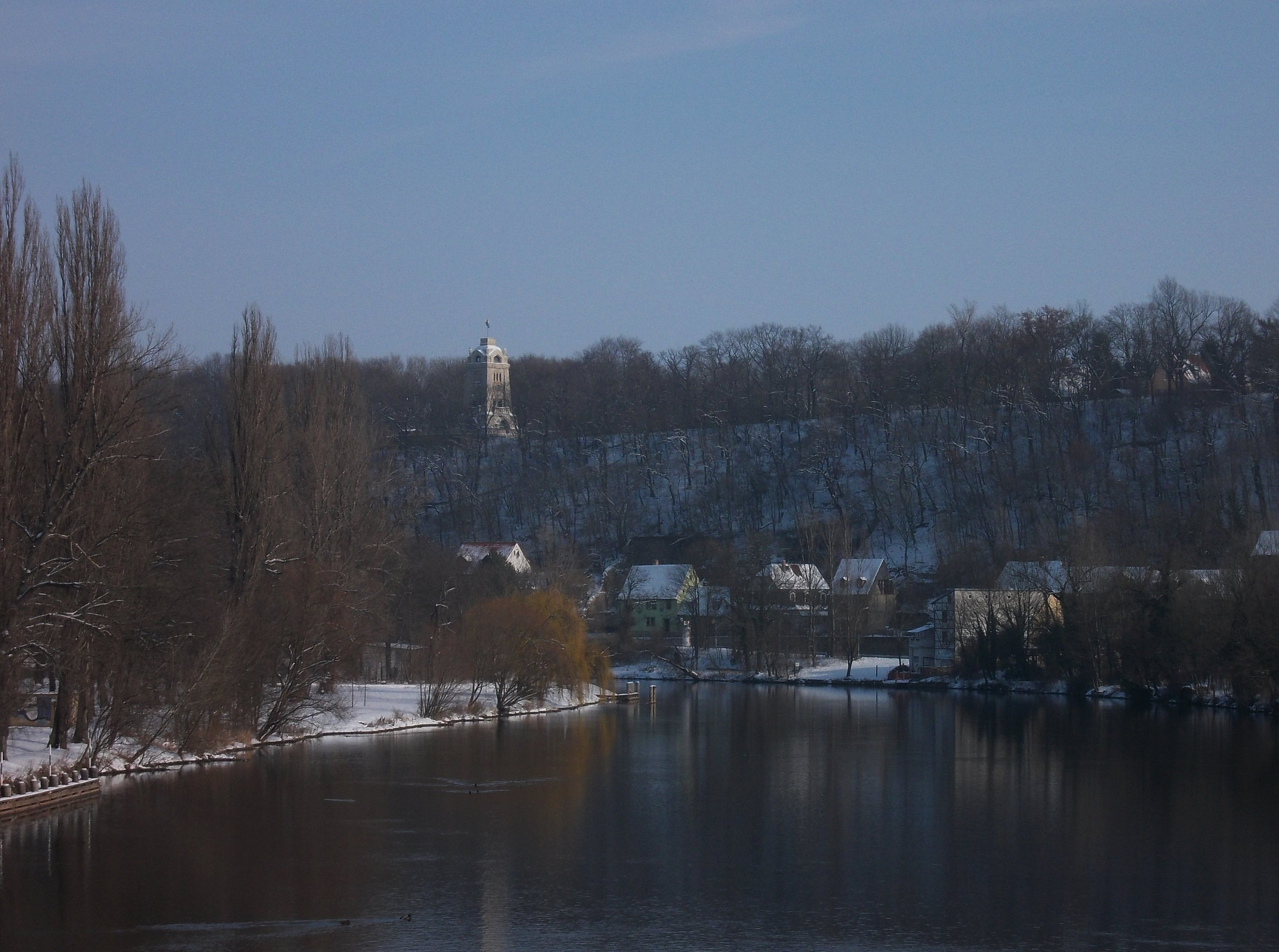 Saale river in Weissenfels (district of Burgenlandkreis, Saxony-Anhalt) in winter, with the Bismarck tower in the background